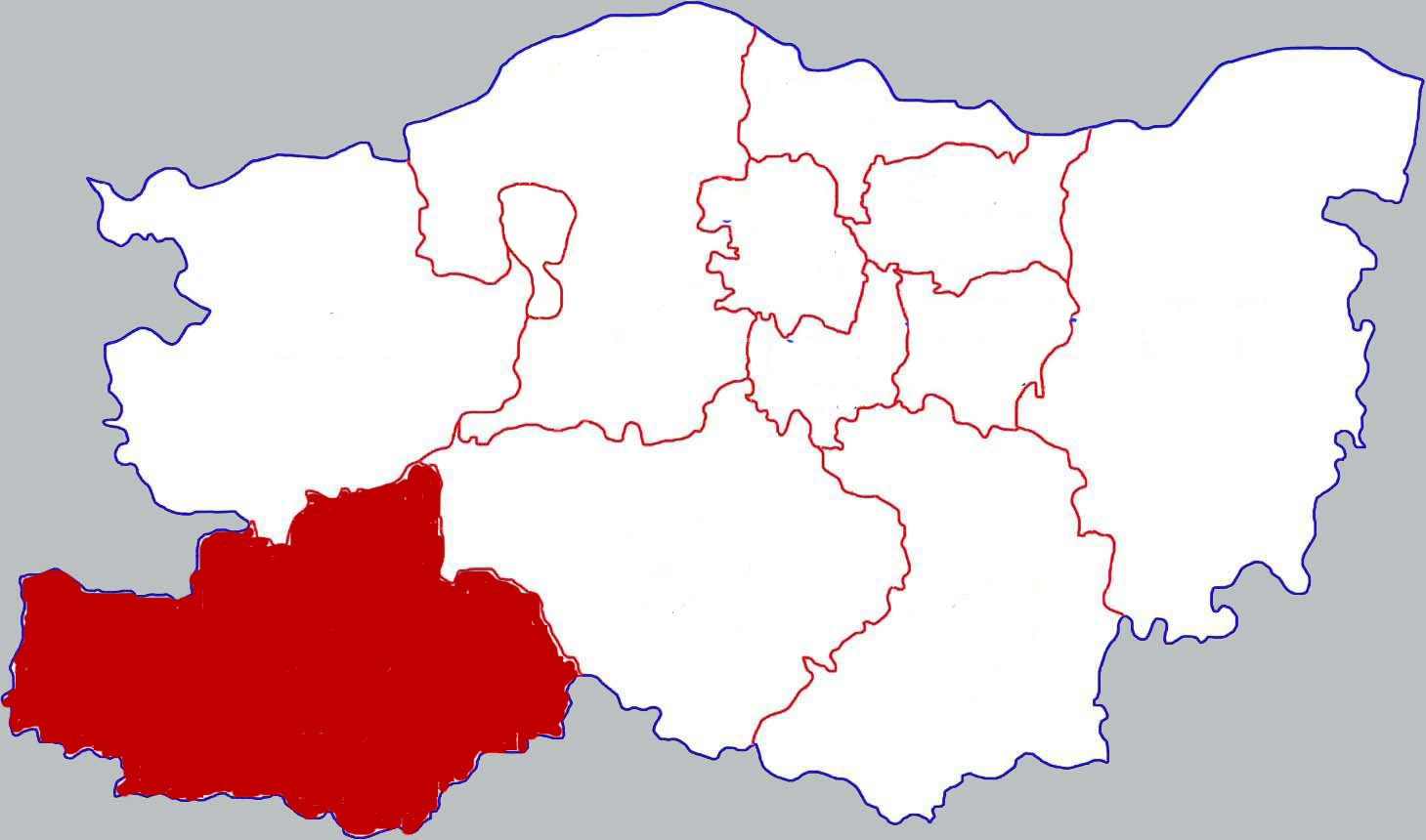 Location of Dengfeng county-level city in Zhengzhou city, China